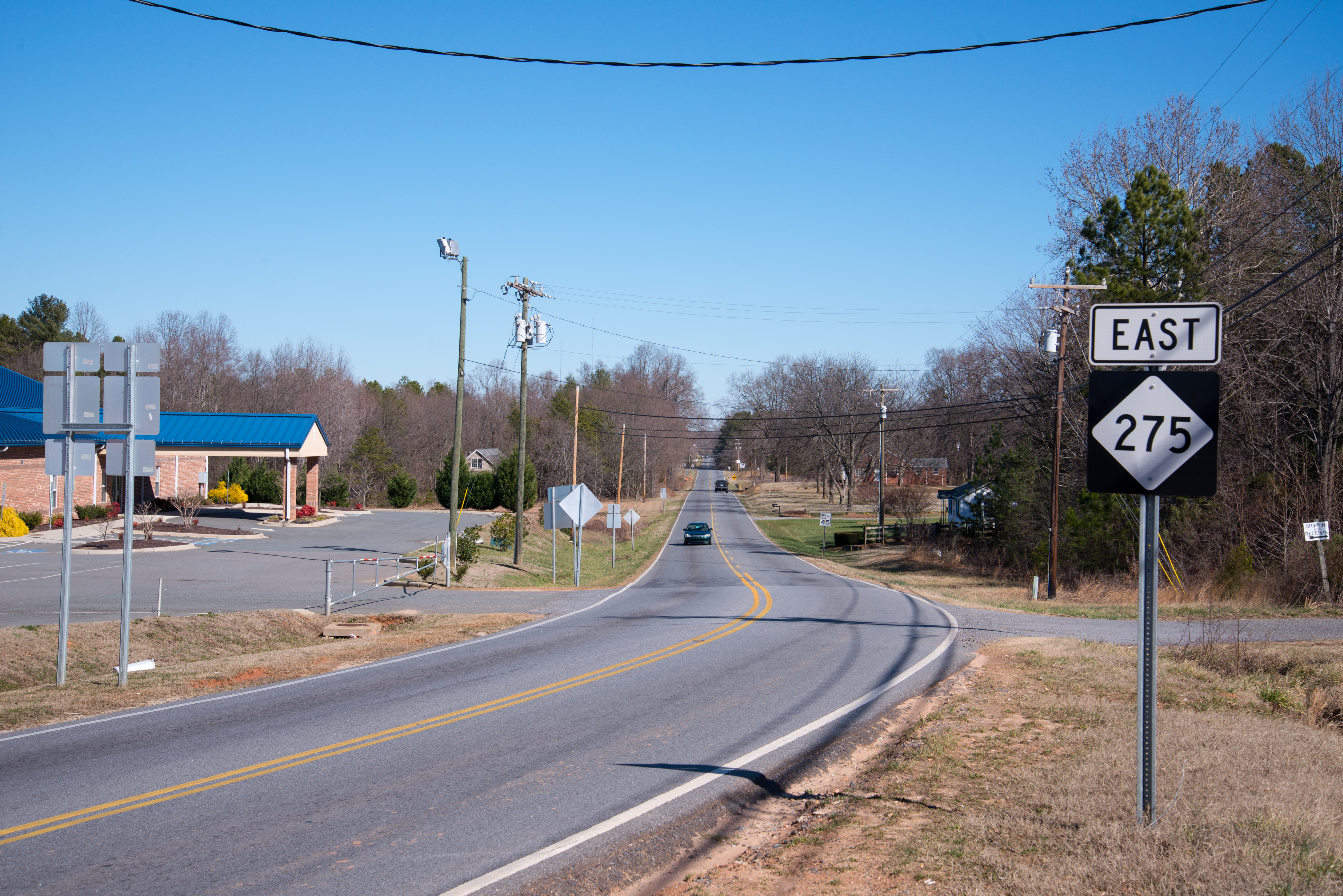 First sign eastbound of NC 275 in Gastonia, North Carolina.